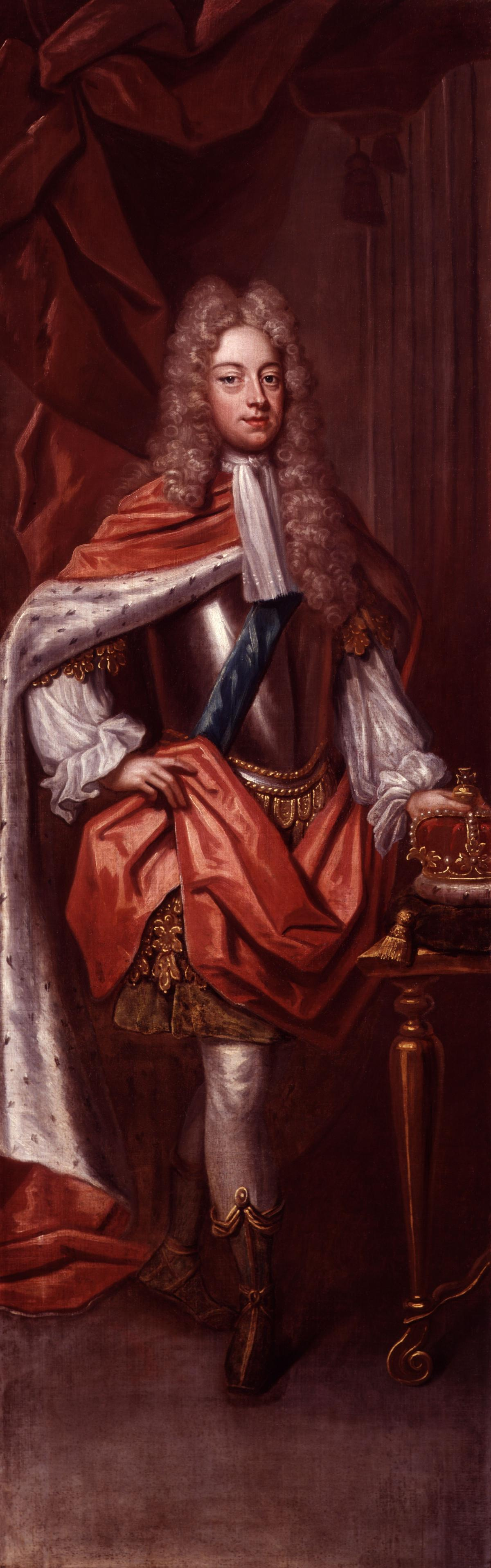 King George II, after Sir Godfrey Kneller, Bt (died 1723). All images in this batch have been confirmed as author died before 1939 according to the official death date listed by the NPG.